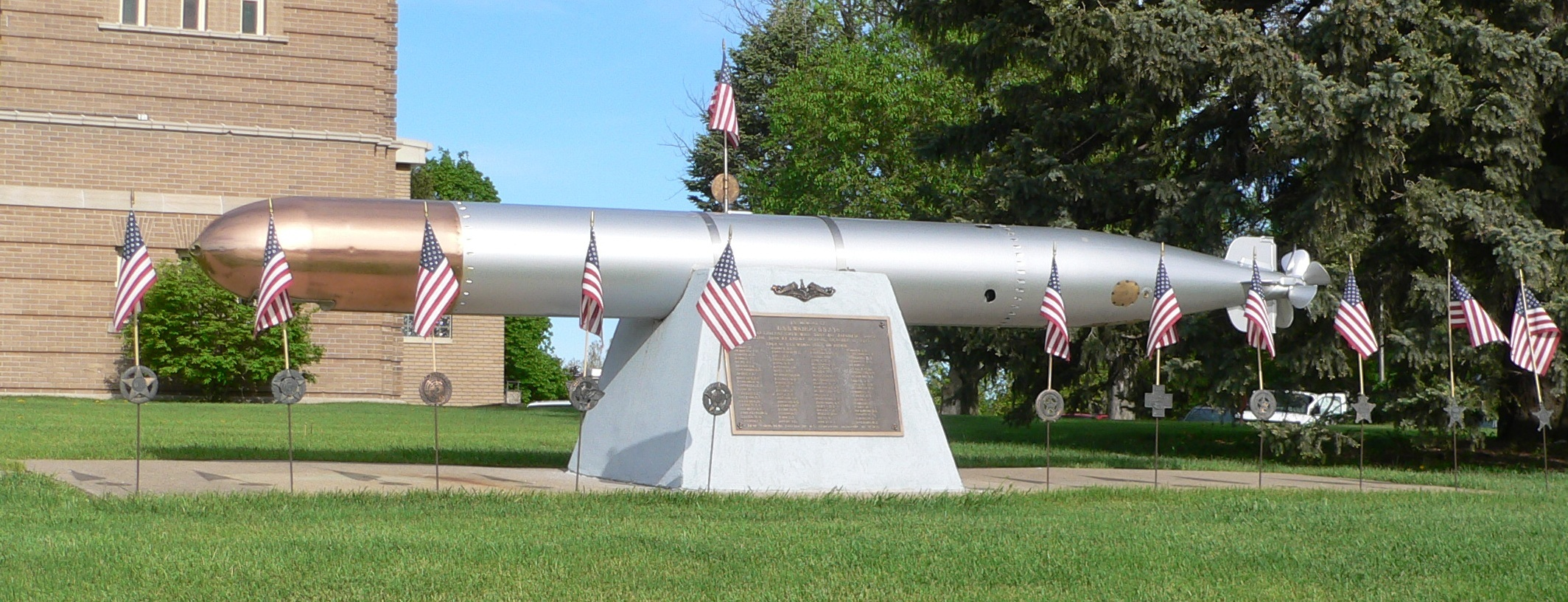 Memorial to USS Wahoo (SS-238) on east lawn of Saunders County Courthouse in Wahoo, Nebraska.